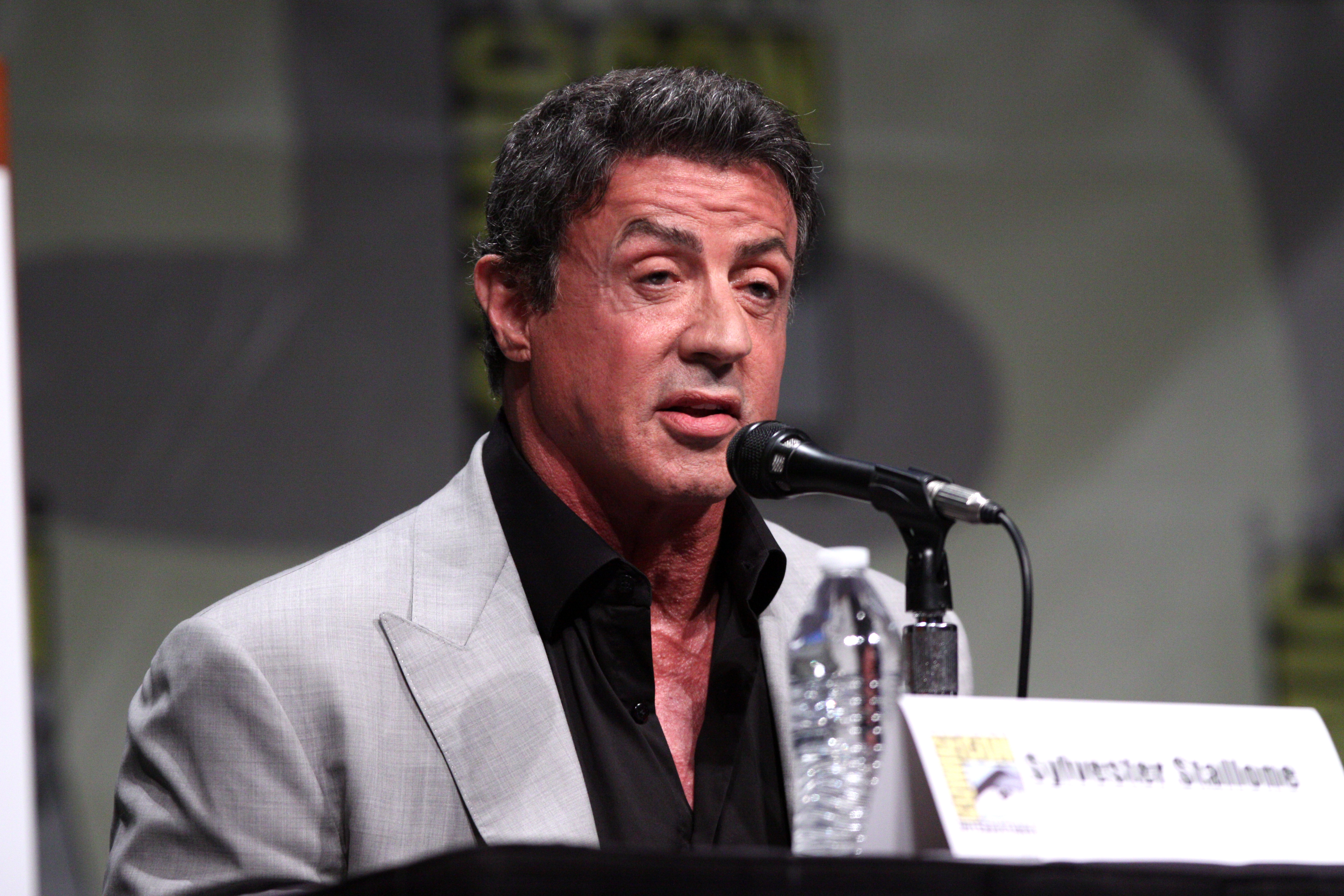 Sylvester Stallone speaking at the 2012 San Diego Comic-Con International in San Diego, California.